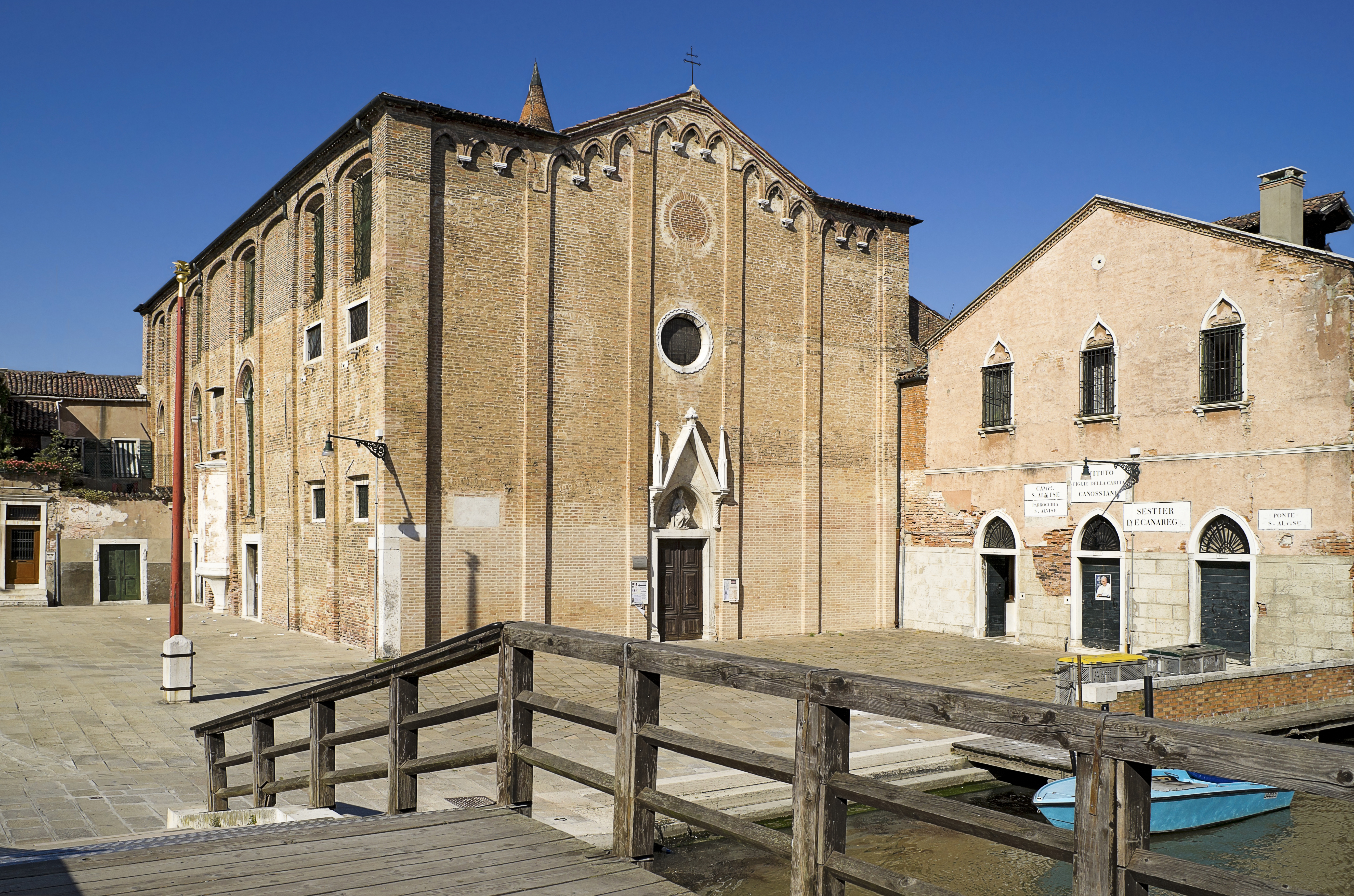 Sant'Alvise, and campo; Venice.